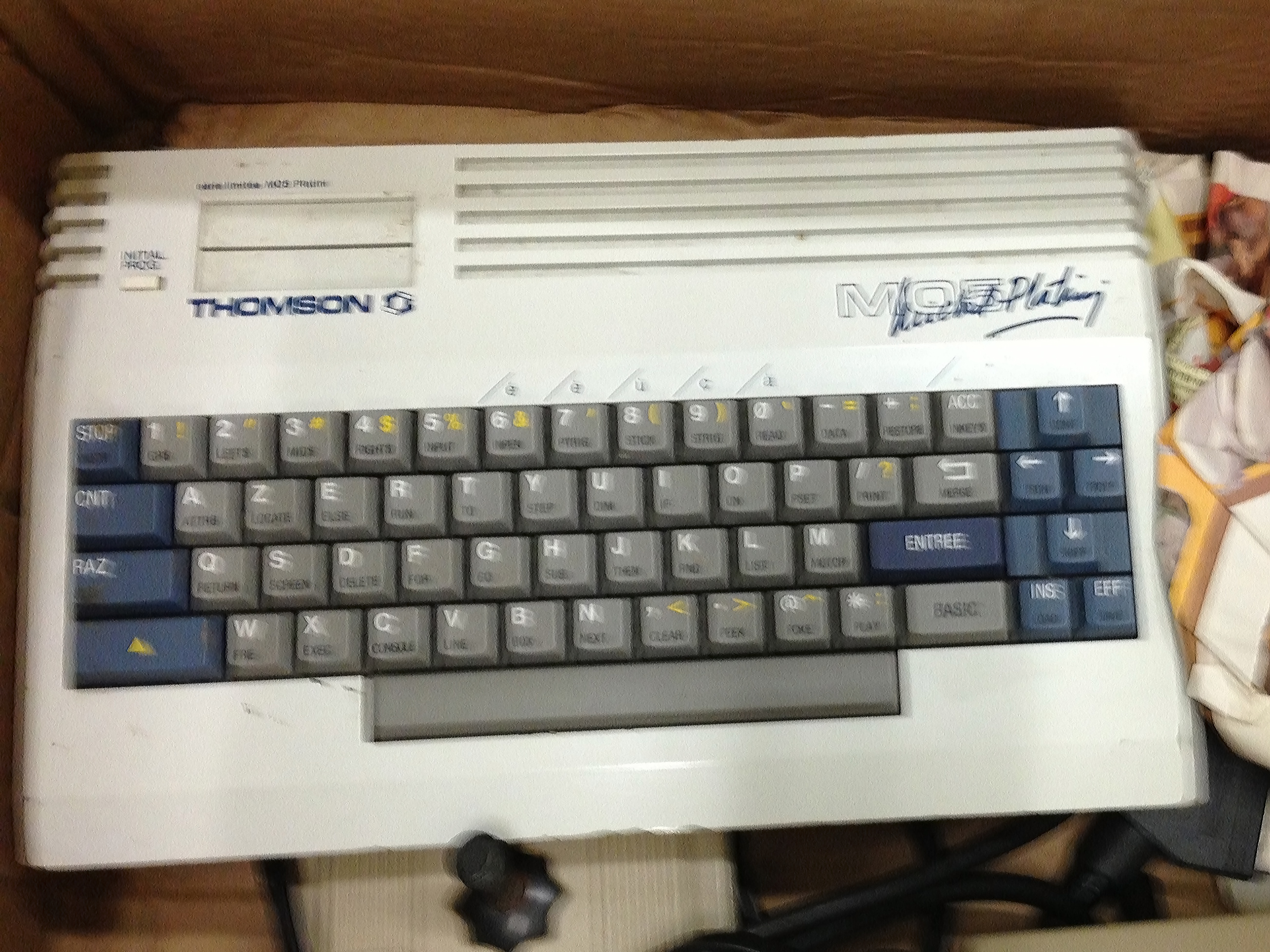 Thomson MO5 computer, special "Michel Platini" endorsed edition. (Platini being around that time a famous French footballer).